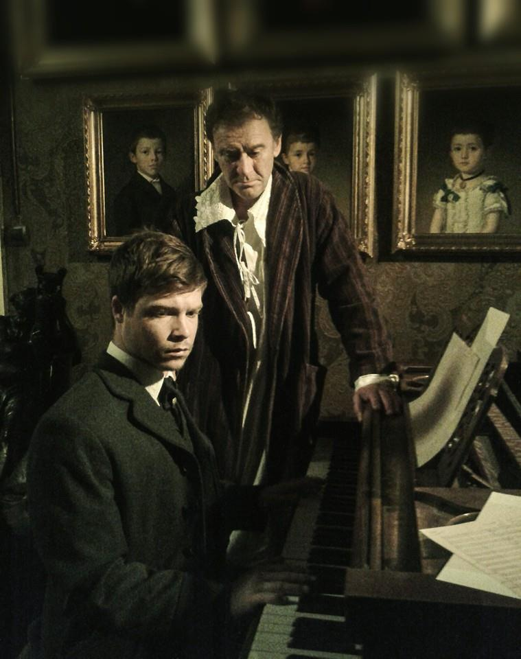 József Incze and Ádám Varga in movie Molto pavane - Erkel és Mahler